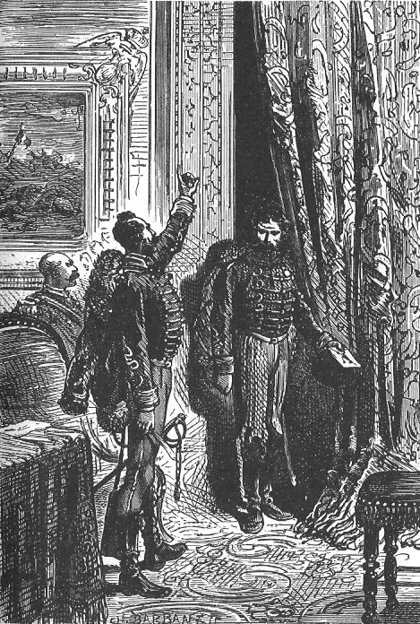 An illustration from the novel "Michael Strogoff: The Courier of the Czar" by Jules Verne drawn by Jules Férat.